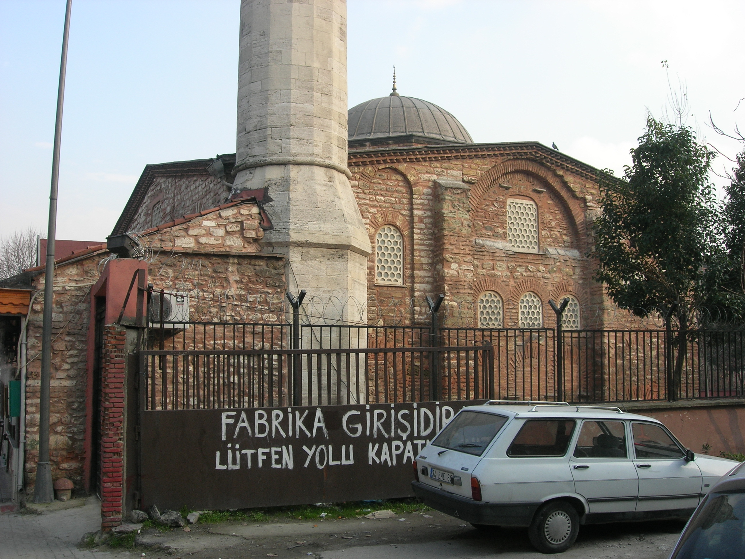 The former Church of Agia Thekla (today mosque of Atik Mustafa Pasha) in Istanbul seen from southwest